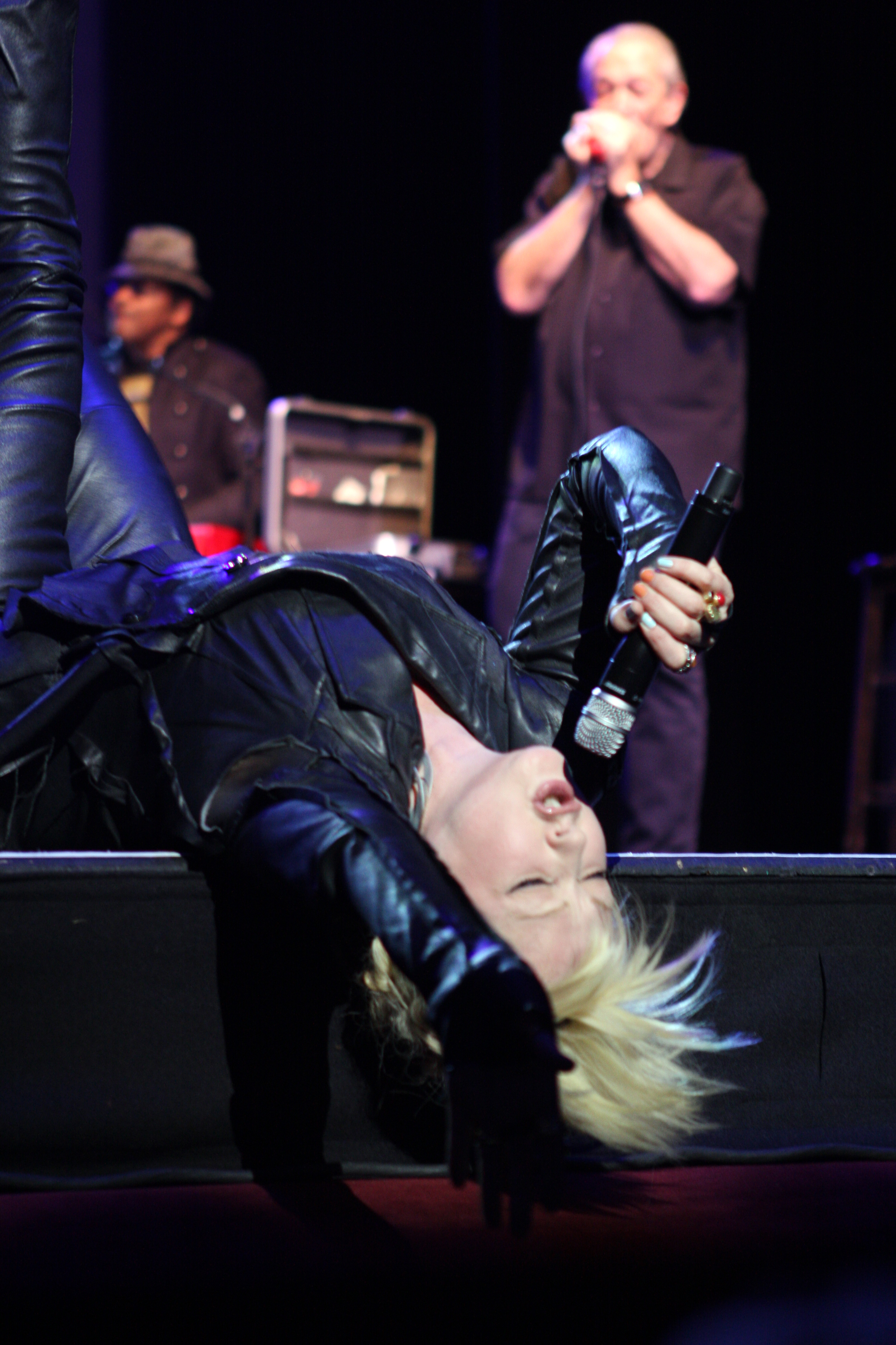 Cyndi Lauper in concert, Australia, 2011.